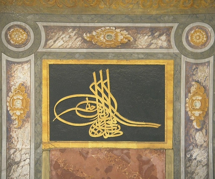 Detail of the Ottoman caligraphy called talik, at the Gate of Felicity in the Topkapi Palace in Istanbul.